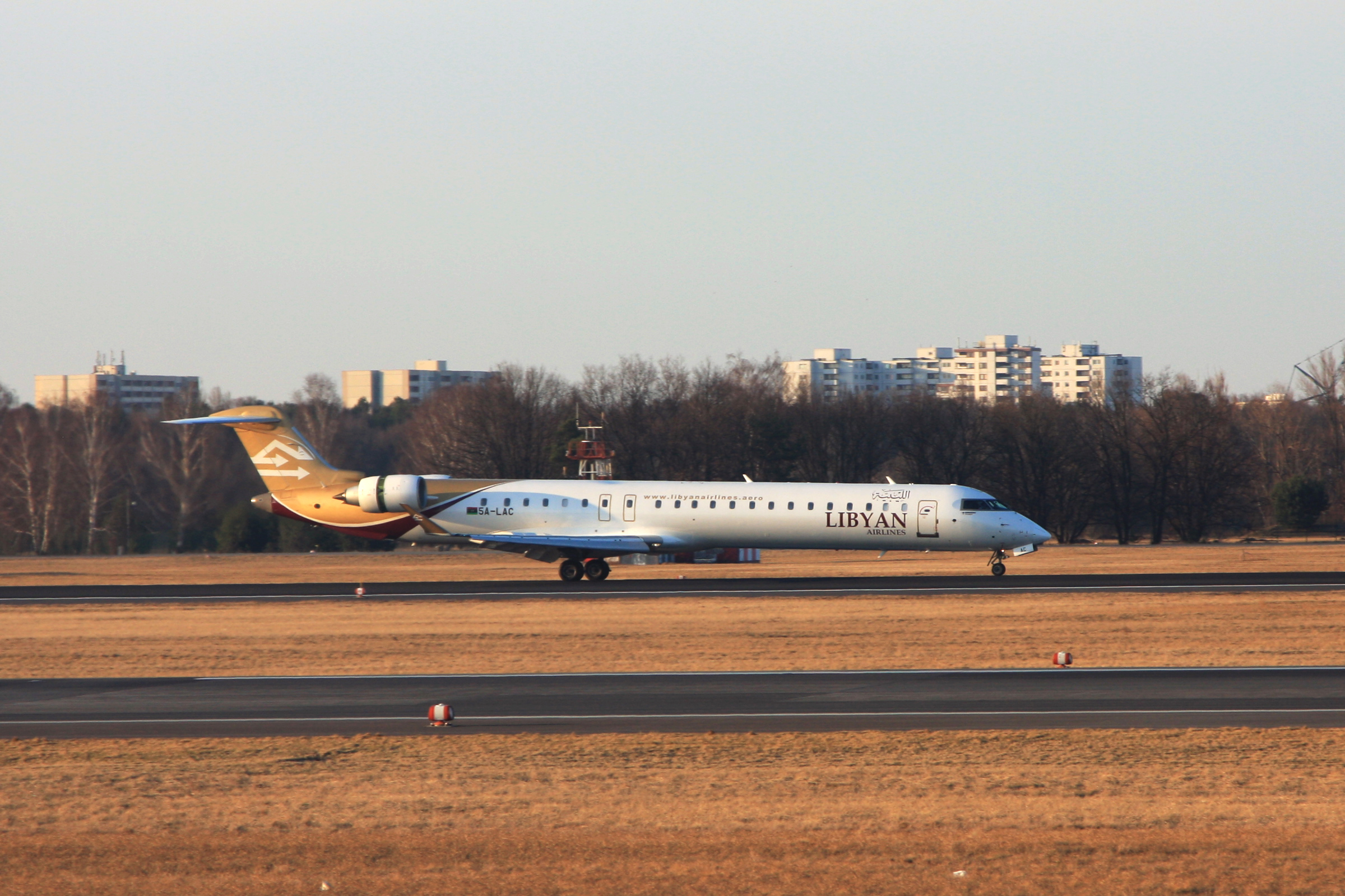 A CRJ900 of Libyan Airlines at Berlin-Tegel Airport